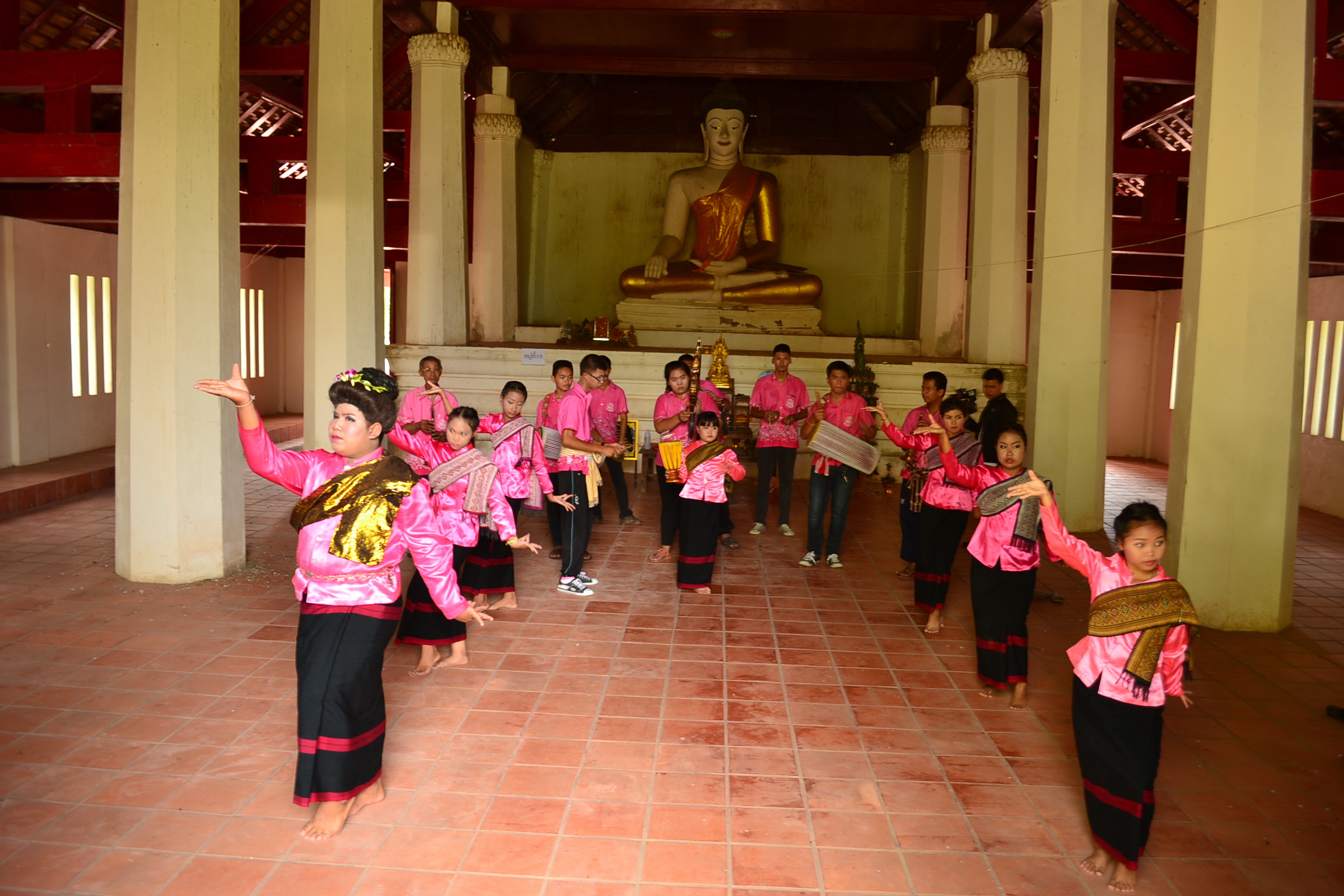 MR.PRACHOM VONGPINIT (1943-) : THE LAST OF MANGKALA TRADITIONAL FOLK PROCESSION BAND IN NORTH OF THAILAND (NORTH UTTARADIT PROVINCE) . at Wat Kungtapao Local Museum, Ban Khung Taphao, Khung Taphao subdistrict, Mueang Uttaradit, Uttaradit Province, Thailand.) on April 30, 2015. Date2015SourceOwn workAuthor ผู้สร้างสรรค์ผลงาน/ส่งข้อมูลเก็บในคลังข้อมูลเสรีวิกิมีเดียคอมมอนส์ - เทวประภาส มากคล้าย Permission (Reusing this file)